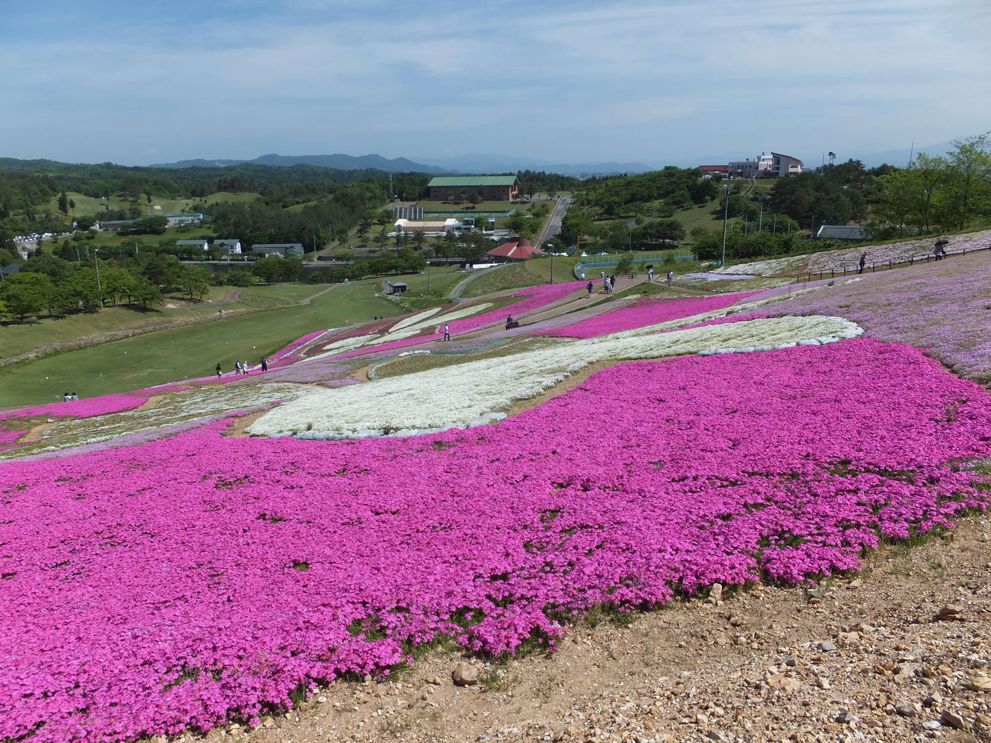 Flower bed of phlox subulata in Yokote City, Akita Prefecture, Japan